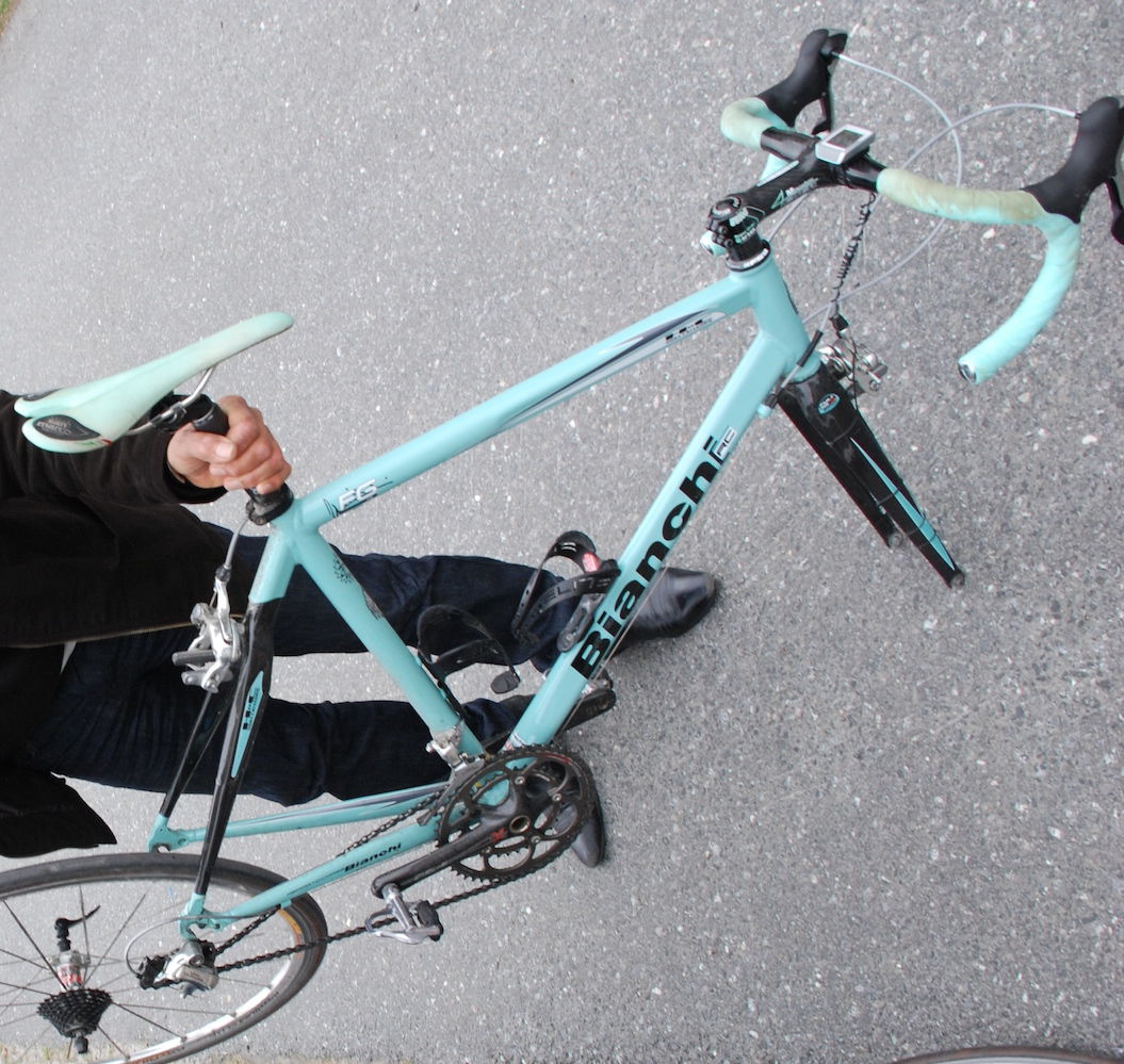 Picture of a Bianchi bicycle in the Bianchi celeste color.